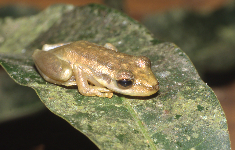 Scinax ruber